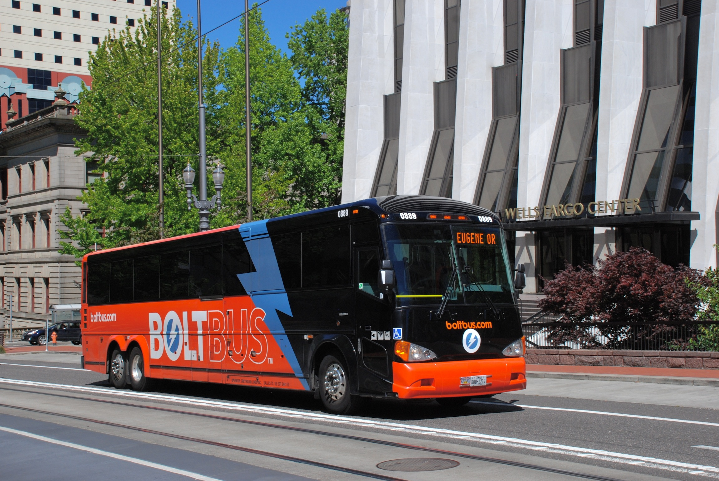 Heading for Eugene, Oregon, BoltBus No. 0889 is passing through downtown Portland, Oregon, on SW 5th Avenue just north of Columbia Street.